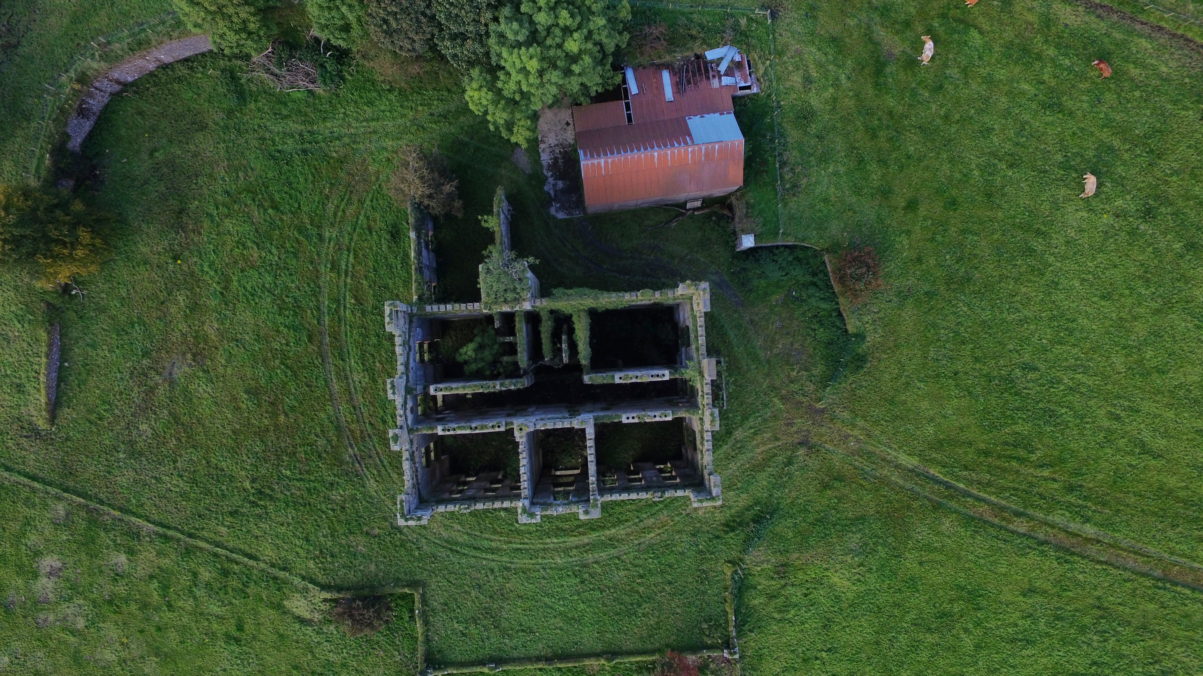 Drone shot of Ogilbys Castle Donemana